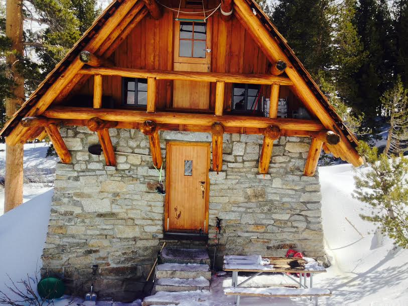 Pear Lake Hut from the front on April 23, 2016